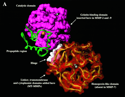 Basic domain structures of MMPs